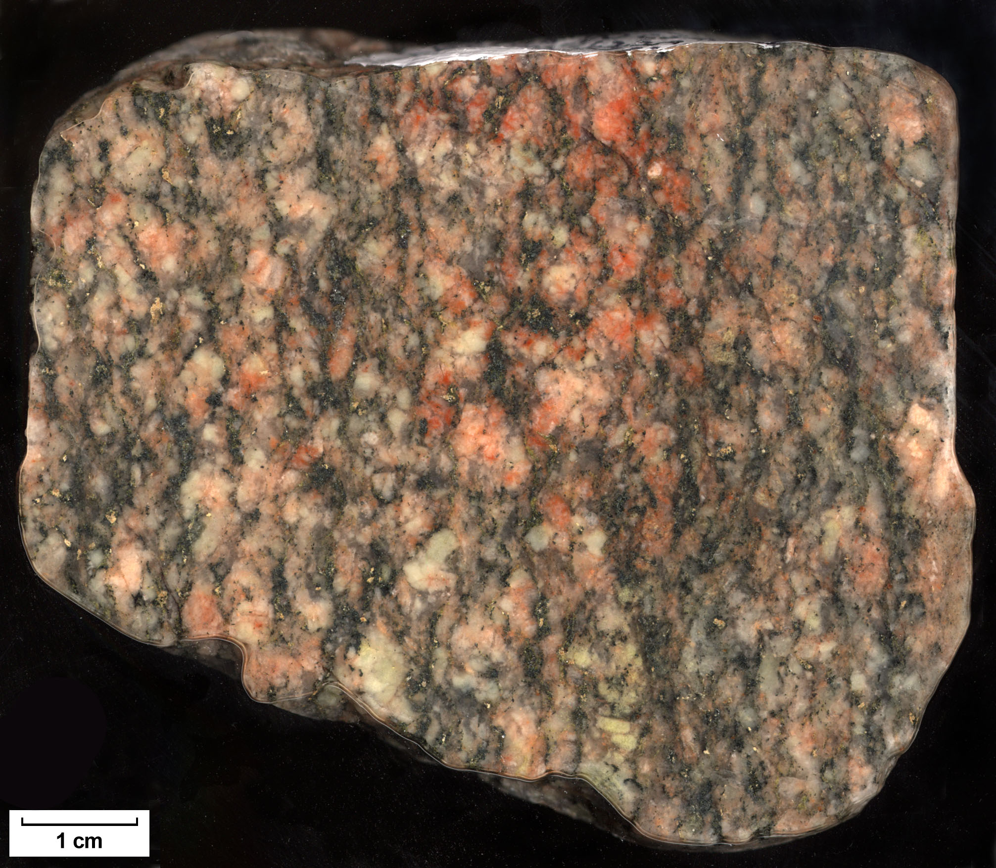 Bedrock sample from a UGSG drill core at Western Cape Cod, Massachusetts. An orthogneiss with a composition of plagioclase (40%), K-feldspar (25%), quartz (25%), chlorite (5%), muscovite (2%), epidote (2%), and trace sphene and oxides, sample 03MW2622 shows less evidence of metamorphism than most of the other gneissic samples. 8-mm plagioclase porphyroclasts are visible in hand sample. Micas occur in 0.5-1 mm-thick bundles, yet no deformational fabrics are recognized.